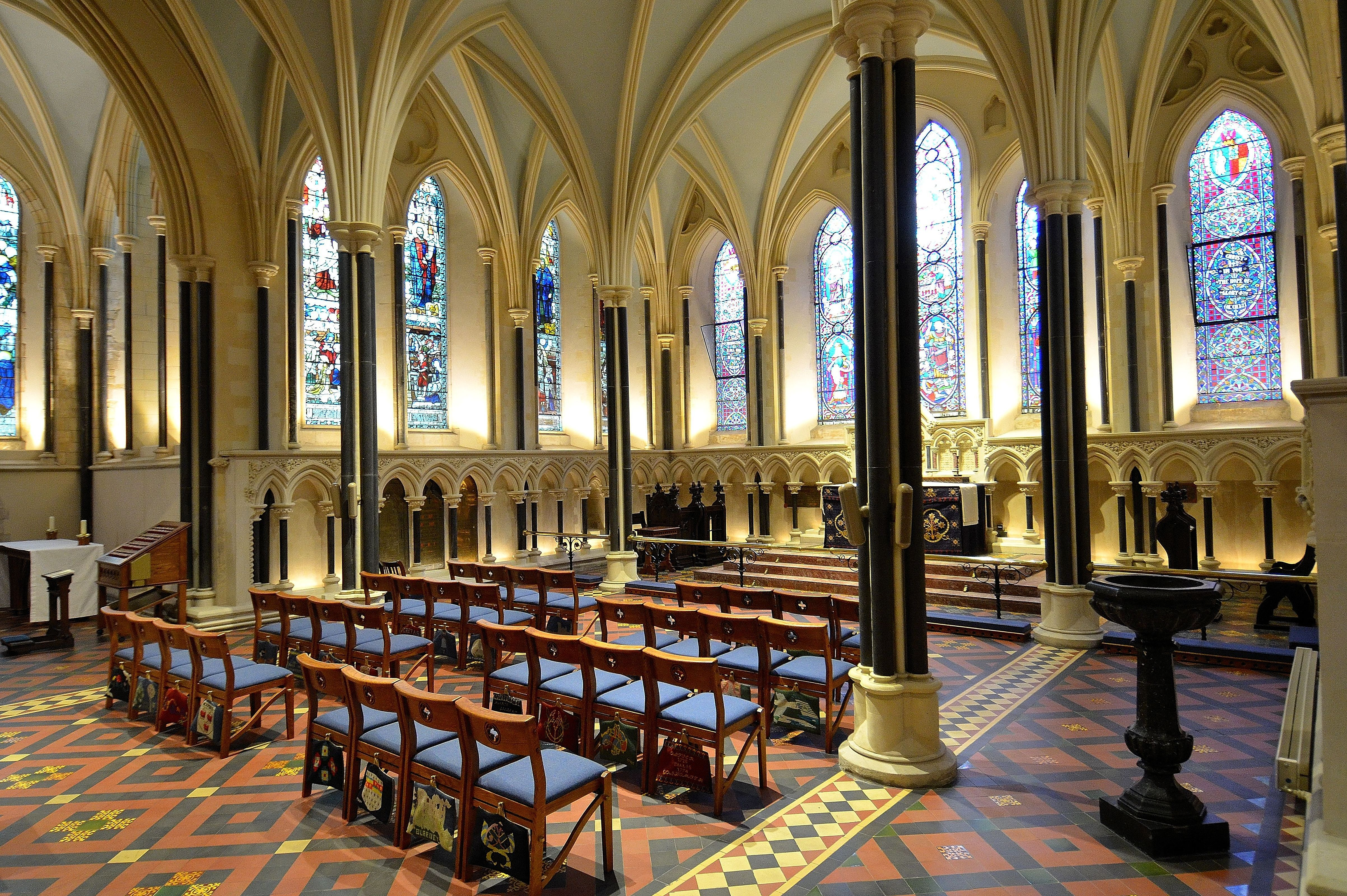 Lady Chapel at St. Patrick's Cathedral in Dublin